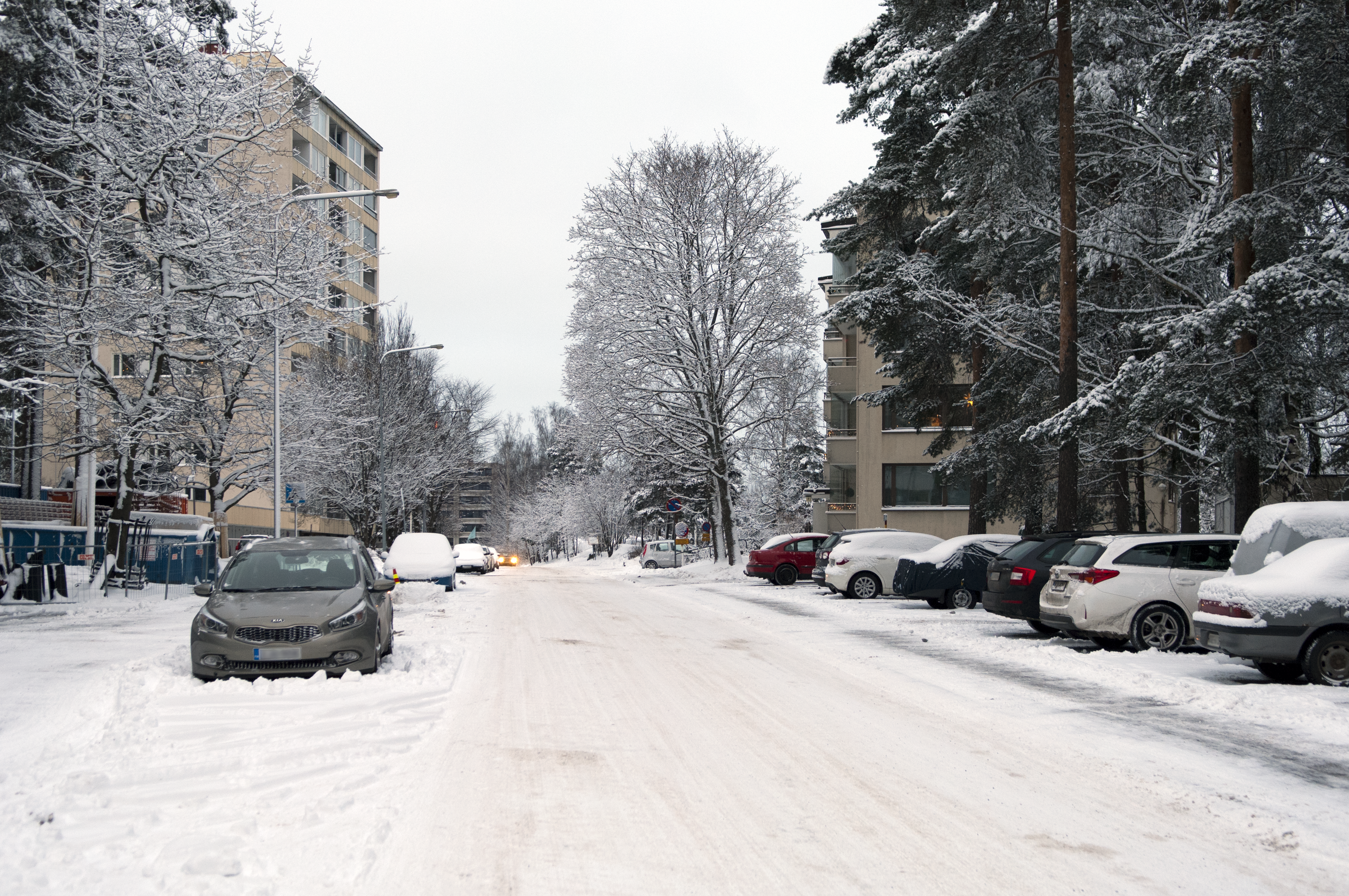 Niemenmäentie road in Niemenmäki, Helsinki, Finland.